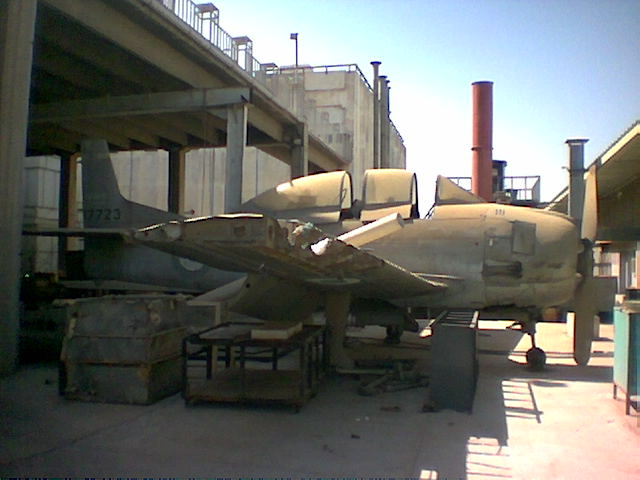 Derelict RSAF T-28A Trojan, one of four acquired in the 1950s, at King Abdulaziz University, Jeddah.